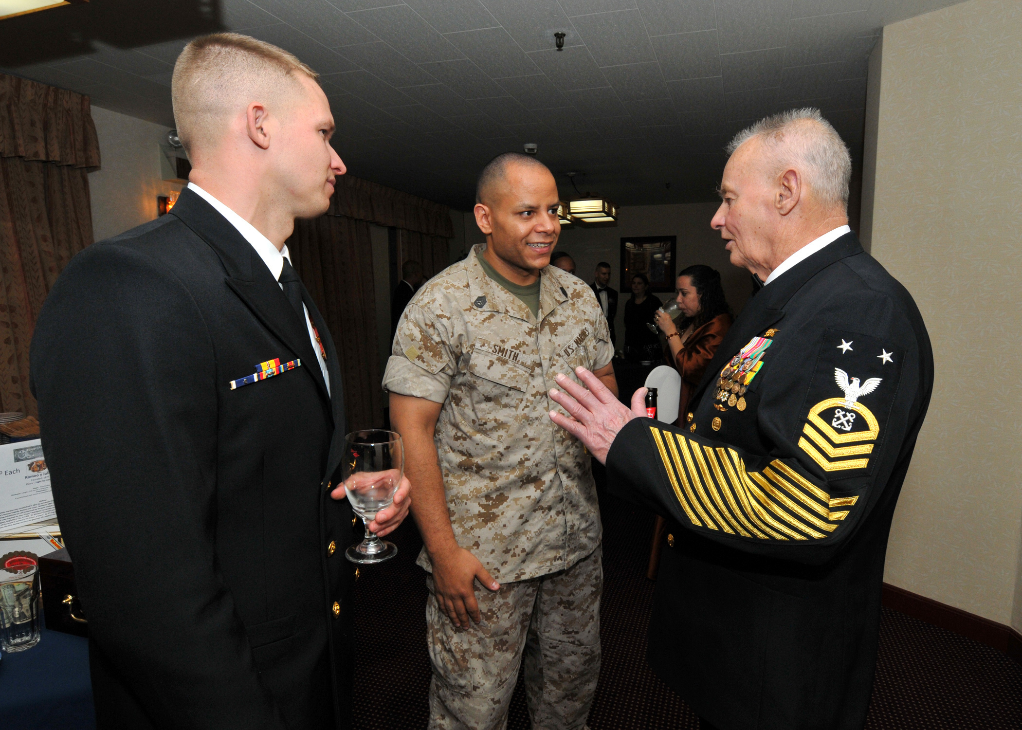 YOKOSUKA, Japan (April 1, 2010) Chief Explosive Ordnance Disposal Technician Daniel Martin, from Houston, and Gunnery Sgt. Tony Smith, from Columbus, Ohio, chat with Master Chief Boatswain's Mate (SEAL) (Ret.) Rudy Boesch during a Chief Petty Officer (CPO) Dining Out event at Commander Fleet Activities Yokosuka. Boesch visited Yokosuka to help celebrate the 117th CPO birthday with the Far East CPO Mess. (U.S. Navy photo by Mass Communication Specialist 3rd Class Charles Oki/Released)